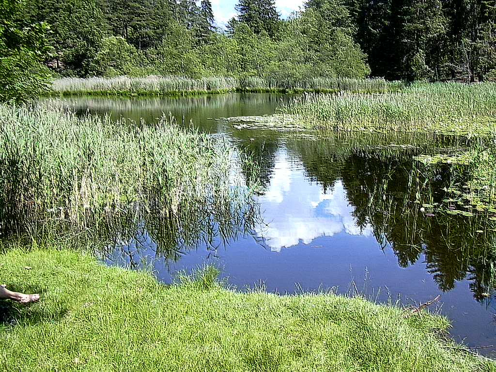 LanserMoor Südseite This media shows the natural monument in the Tyrol with the ID ND_3_59.